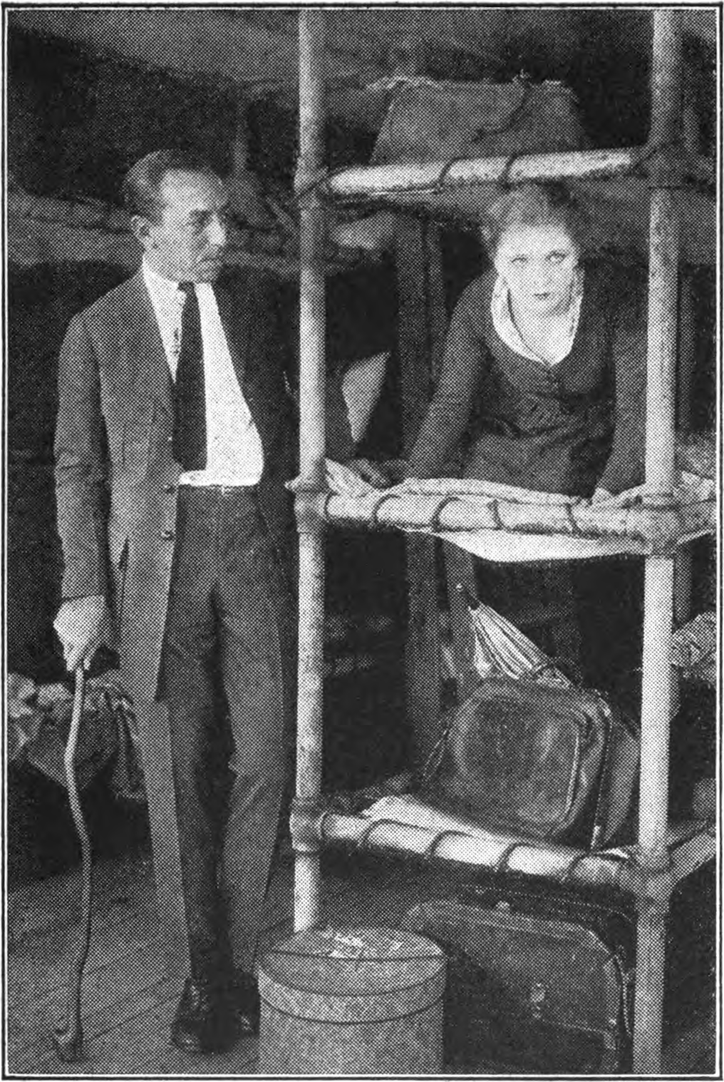 Photograph of Mary Miles Minter and Chester Franklin from the "Screen acting" (1921) book. Description under the image in the "Screen acting" book: "A beautiful young star and her director, Mary Miles Minter and Chester Franklin." Title at the "Illustrations" page (page XIII): "Mary Miles Minter".